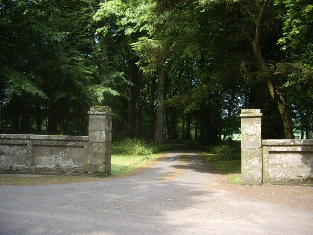 Access to Phesdo House From B966.